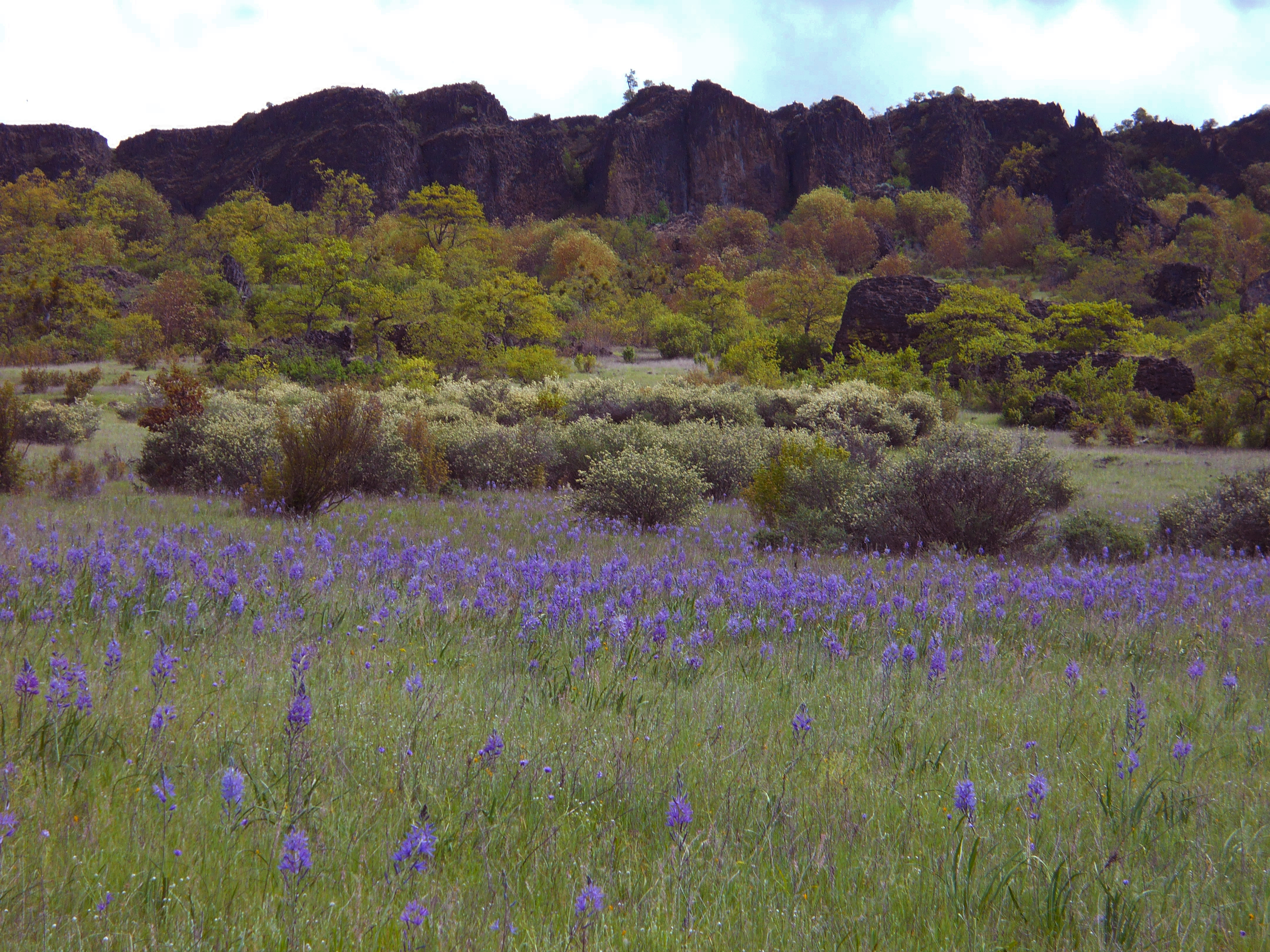 Upper and Lower Table Rocks are two of the most prominent topographic features in the Rogue River Valley. These flat-topped buttes rise approximately 800 feet above the north bank of the Rogue River in southwestern Oregon. Upper and Lower refer to their positions relative to each other along the Rogue River; Lower Table Rock is located downstream, or lower on the river, from Upper Table Rock. The Table Rocks were designated in 1984 as an Area of Critical Environmental Concern (ACEC) to protect special plants and animal species, unique geologic and scenic values, and education opportunities. The remarkable diversity of the Table Rocks includes a spectacular spring wildflower display of over 75 species, including the dwarf wooly meadowfoam (Limnanthes floccosa ssp. pumila), which grows nowhere else on Earth but on the top of the Table Rocks. Vernal pool fairy shrimp (Branchinecta lynchi), federally listed as threatened, inhabit the seasonally formed vernal pools found on the tops of both rocks. The 4,864-acre Table Rocks Management Area is cooperatively owned and administered by the Medford District Bureau of Land Management (2,105 acres) and The Nature Conservancy (2,759 acres). Memorandums of Understanding signed in 2011 and 2012 with the Confederated Tribes of the Grand Ronde and the Cow Creek Band of Umpqua Tribe of Indians allow for coordinating resources to protect the Table Rocks for present and future generations. A cooperative management plan for the area was completed in 2013. If you've never been, start planning your trip right here